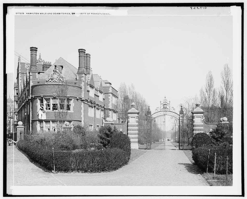 "Hamilton Walk and Dormitories, University of Pennsylvania."